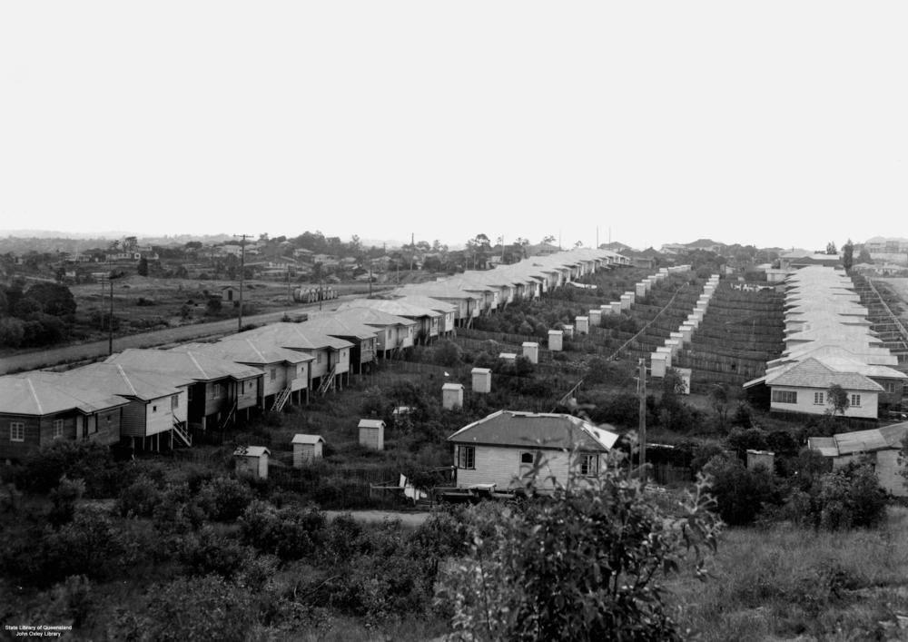 View from above of rows of timber houses with outhouses built by the Queensland Housing Commission in Norman Park, Brisbane, Australia around 1950. The little sheds in each back yard are "outhouses" or "dunnies"